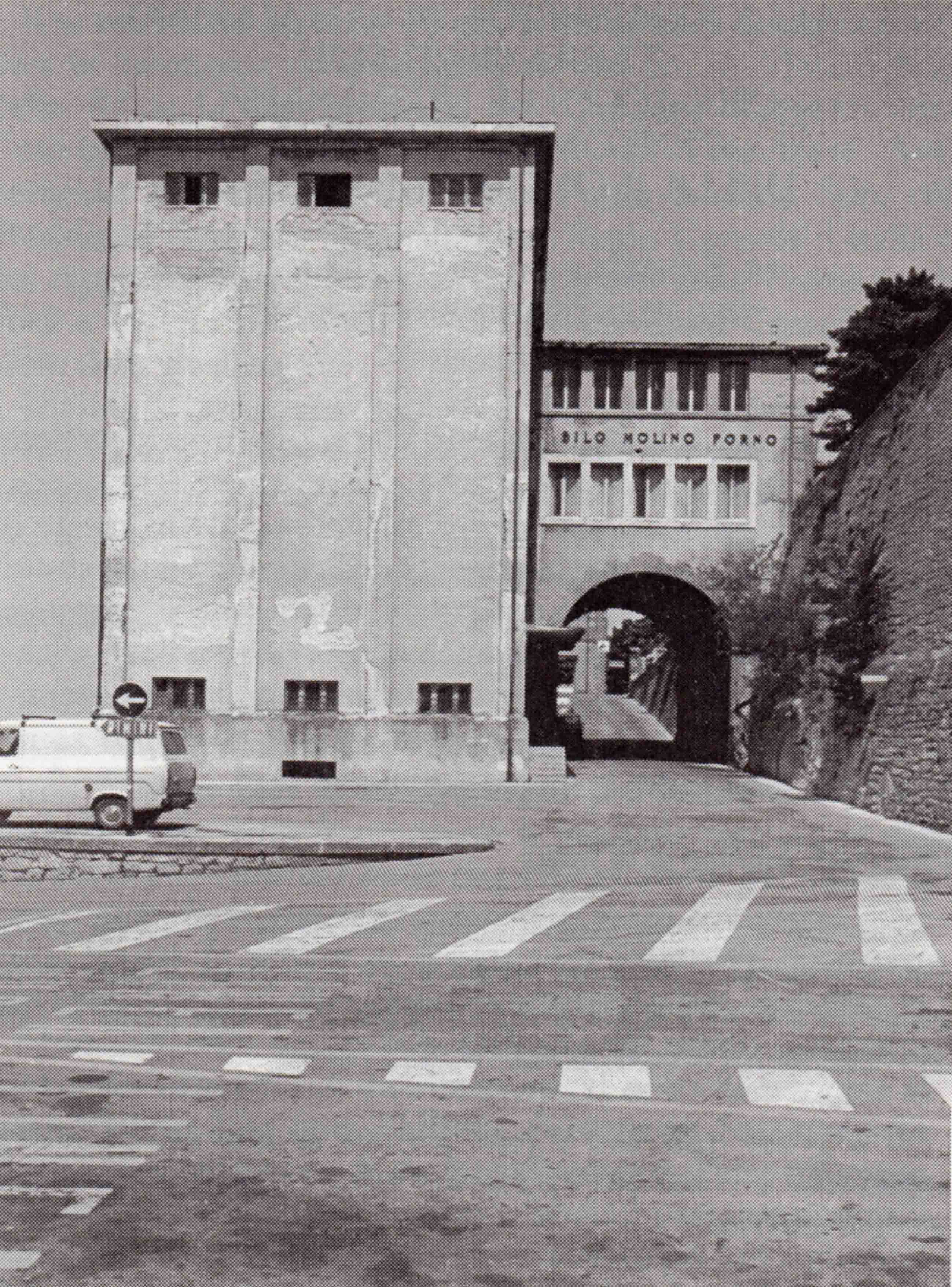 Forno Molino SIlo (SUMS)